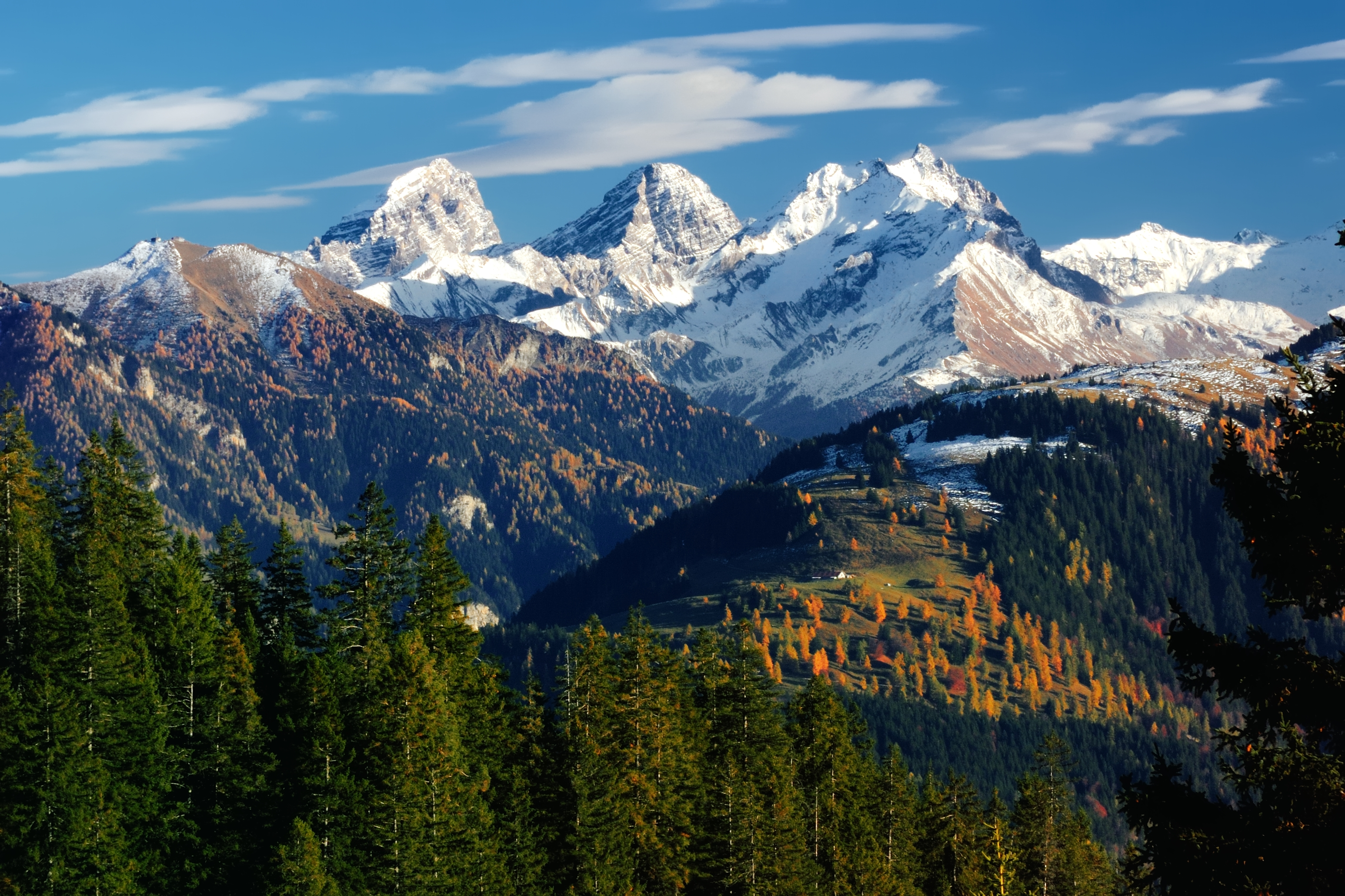 Piz Ela, Tinzenhorn and Piz Mitgel from above Flims